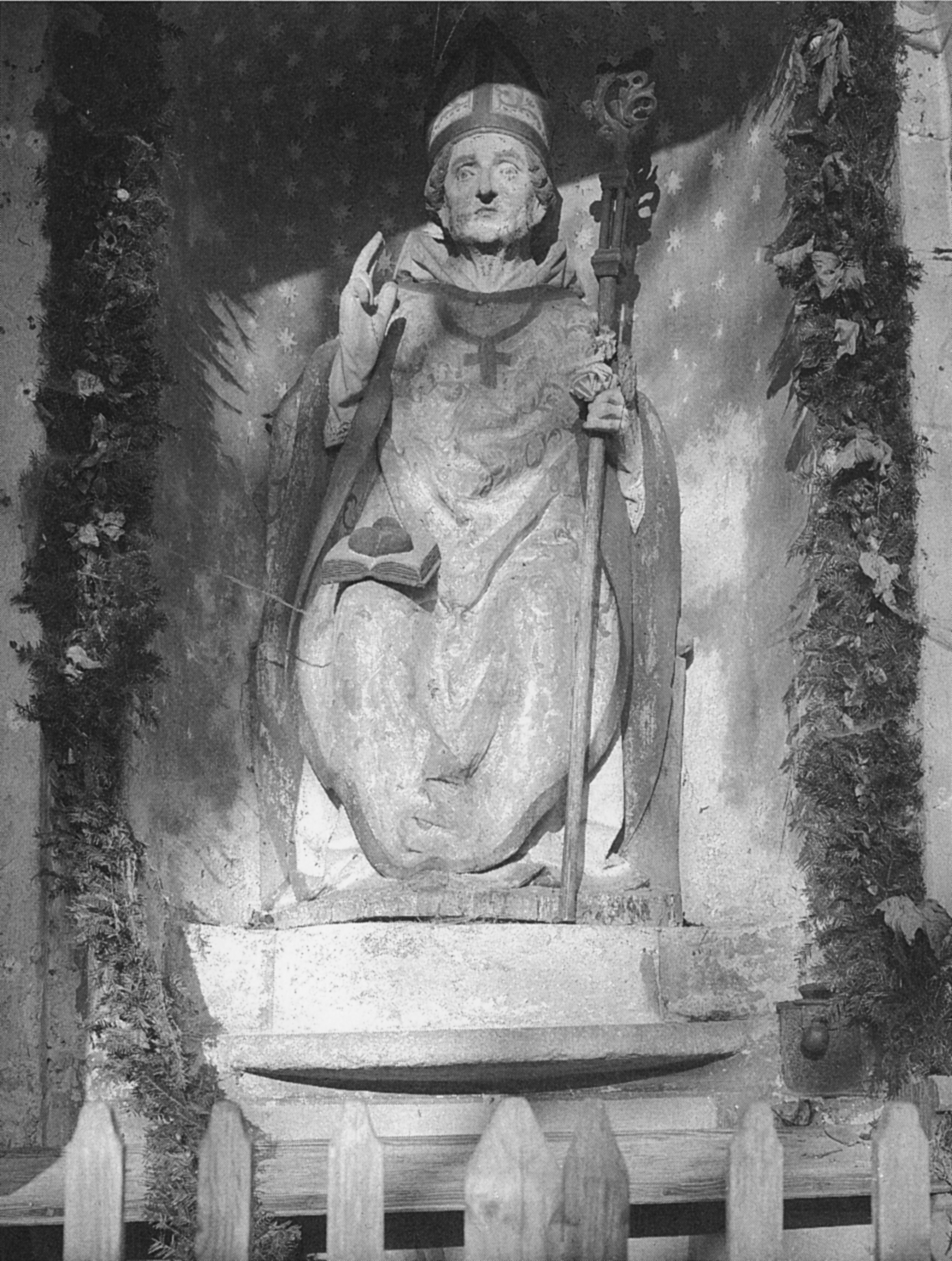 Petschar, Friedlmeier, Steiermark in alten Fotografien, Ueberreuther Verlag Wien. Scanprojekt Community Projektbudget 2012 This scan or this PDF-file was created within the GLAM-project Bookscanning, supported by Wikimedia Germany and Wikimedia Austria as a part of the community-project to capture books, documents and pictures which are not eligible to copyright or for which the copyright has expired. This document describes or depicts an object which is located in Austria today. Texts are written German language. Send requests for uncompressed scans to Hubertl. This work is in the public domain in its country of origin and other countries and areas where the copyright term is the author's life plus 100 years or less. You must also include a United States public domain tag to indicate why this work is in the public domain in the United States. This file has been identified as being free of known restrictions under copyright law, including all related and neighboring rights.